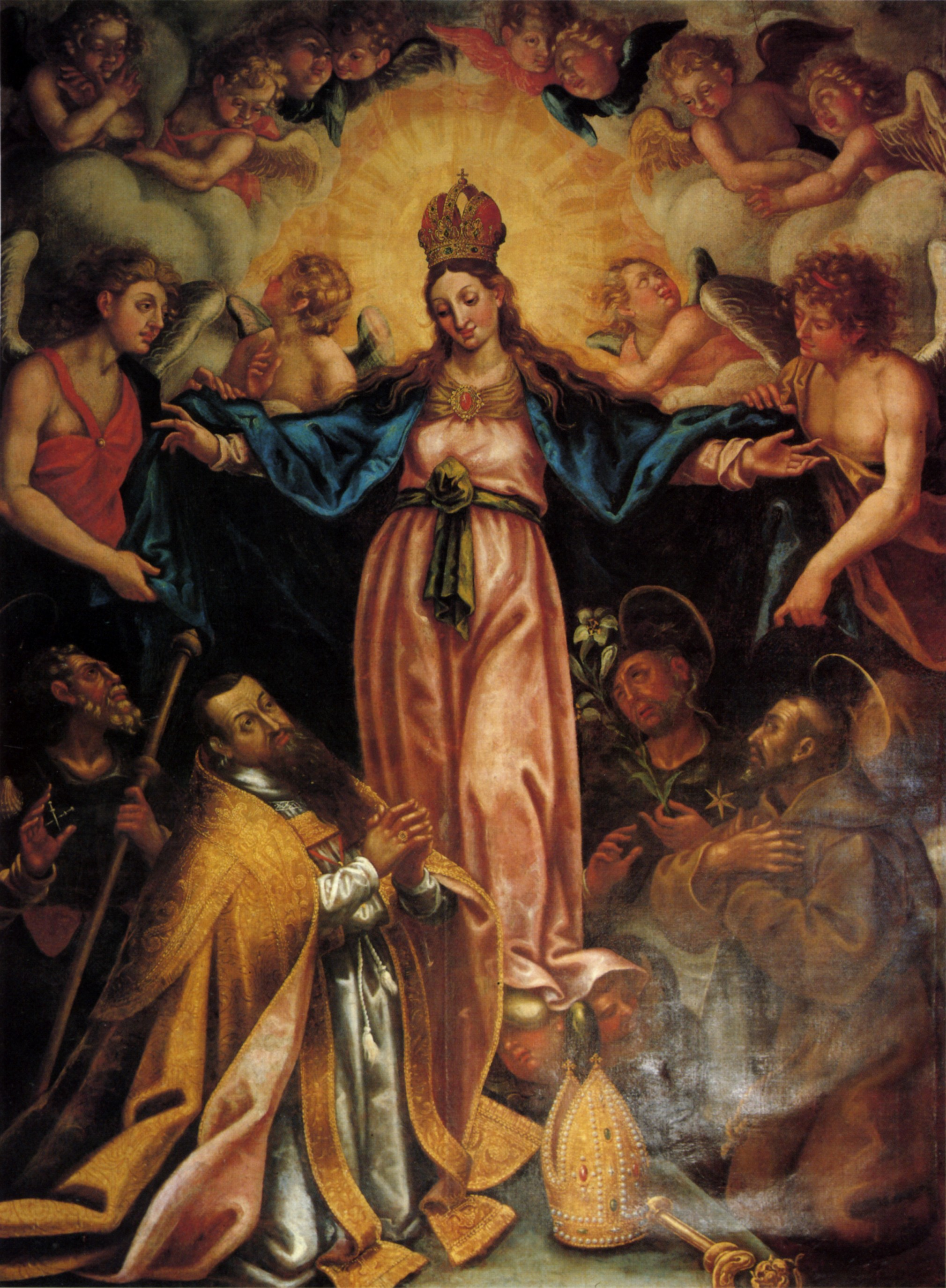 Bartholomäus Storer: Madonna (with Jakob Fugger, Bishop of Konstanz).